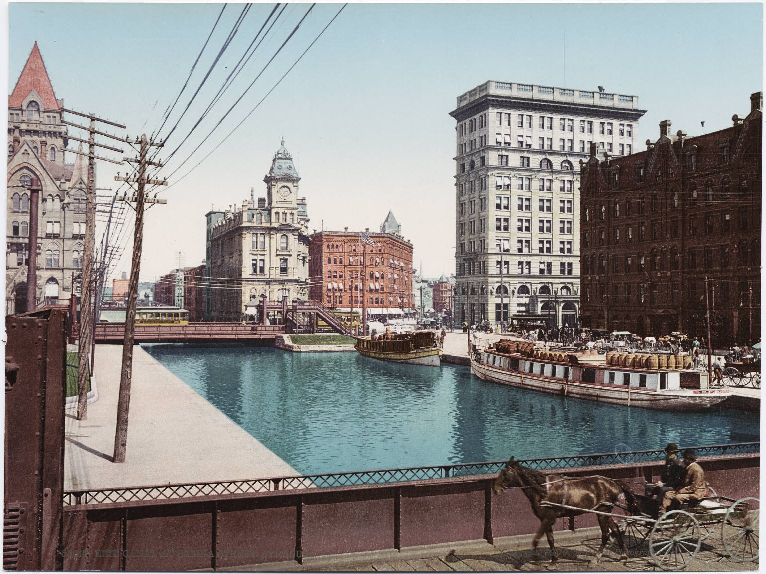 A photochrom postcard published by the Detroit Photographic Company.